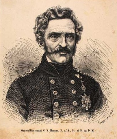 Christian Frederik Hansen (1788-1873), Danish General and Minister of War